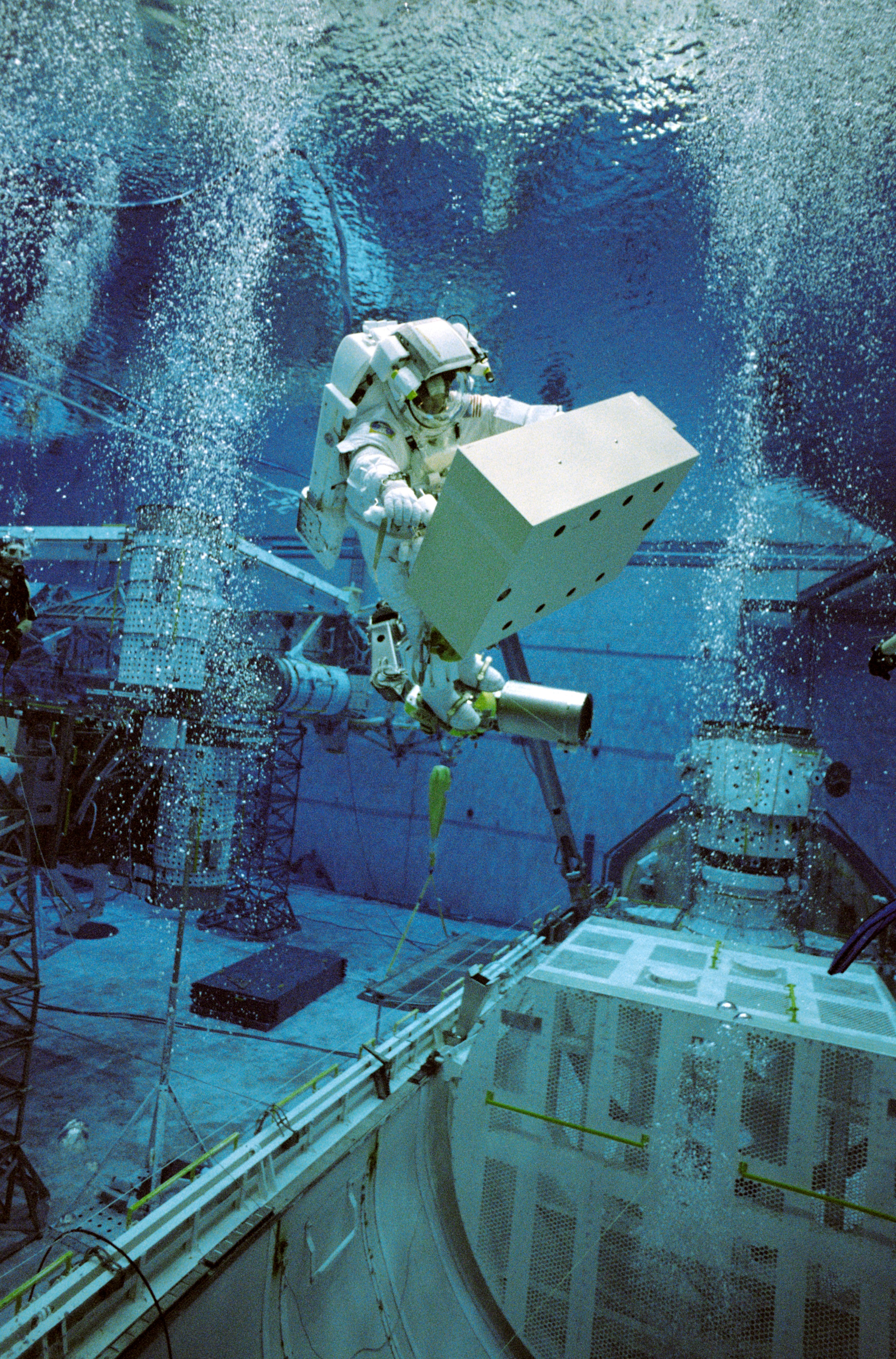 JSC2003-00011 (7 January 2003) --- Astronaut Christer Fuglesang, STS-116 mission specialist, wearing a training version of the Extravehicular Mobility Unit (EMU) spacesuit, participates in an underwater simulation of extravehicular activity (EVA) scheduled for the 19th shuttle mission to the International Space Station (ISS). Fuglesang was joined by astronaut Robert L. Curbeam, Jr. (out of frame), mission specialist, for the simulation, conducted in the Neutral Buoyancy Laboratory (NBL) near the Johnson Space Center. Fuglesang represents the European Space Agency (ESA).